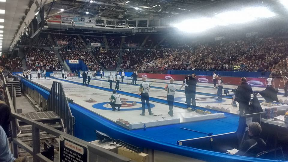 2016 Tim Hortons Brier draw 2 action